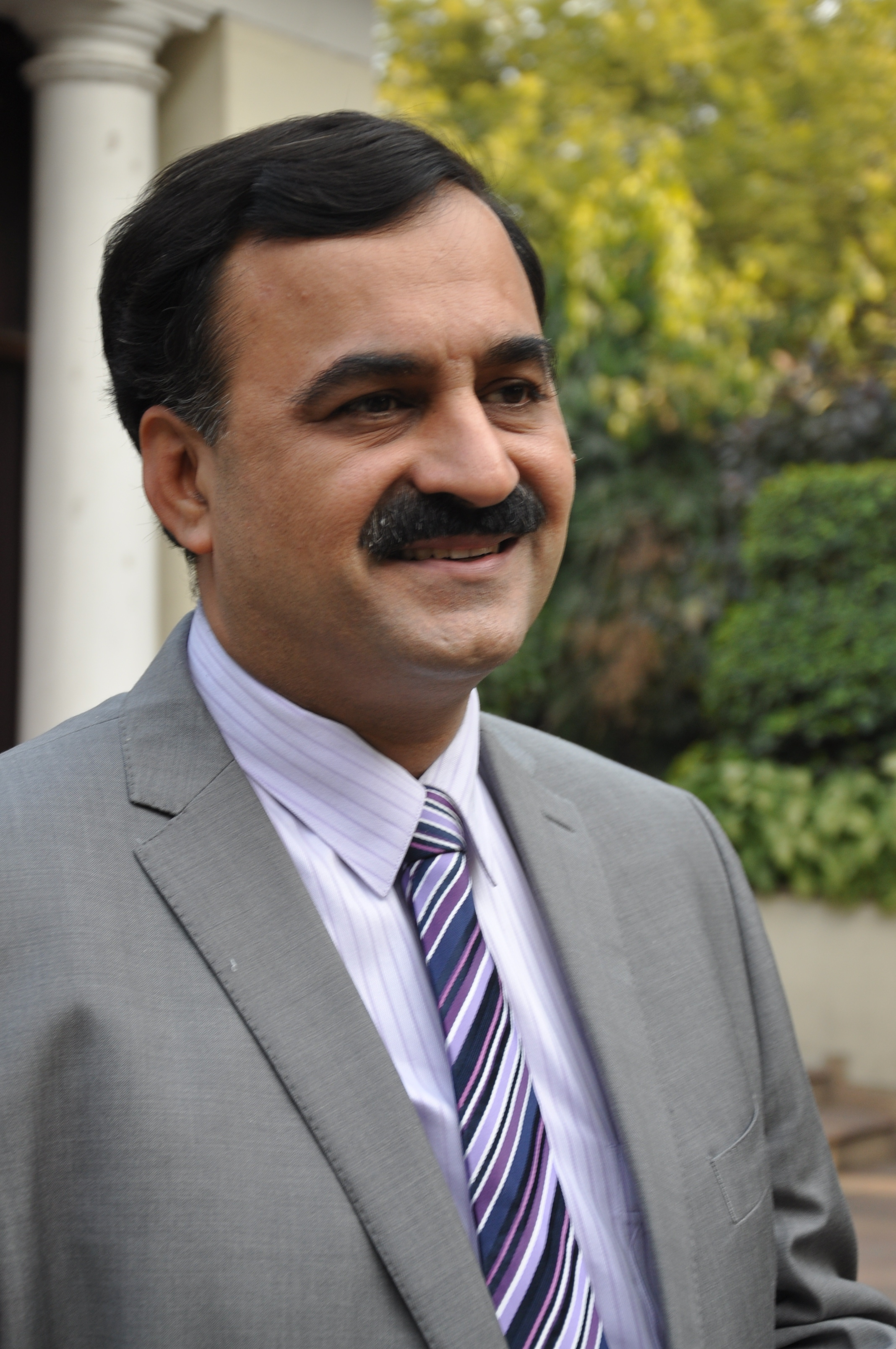 Pavan Duggal is an advocate specialized in the field of Cyberlaw, E-Commerce law.